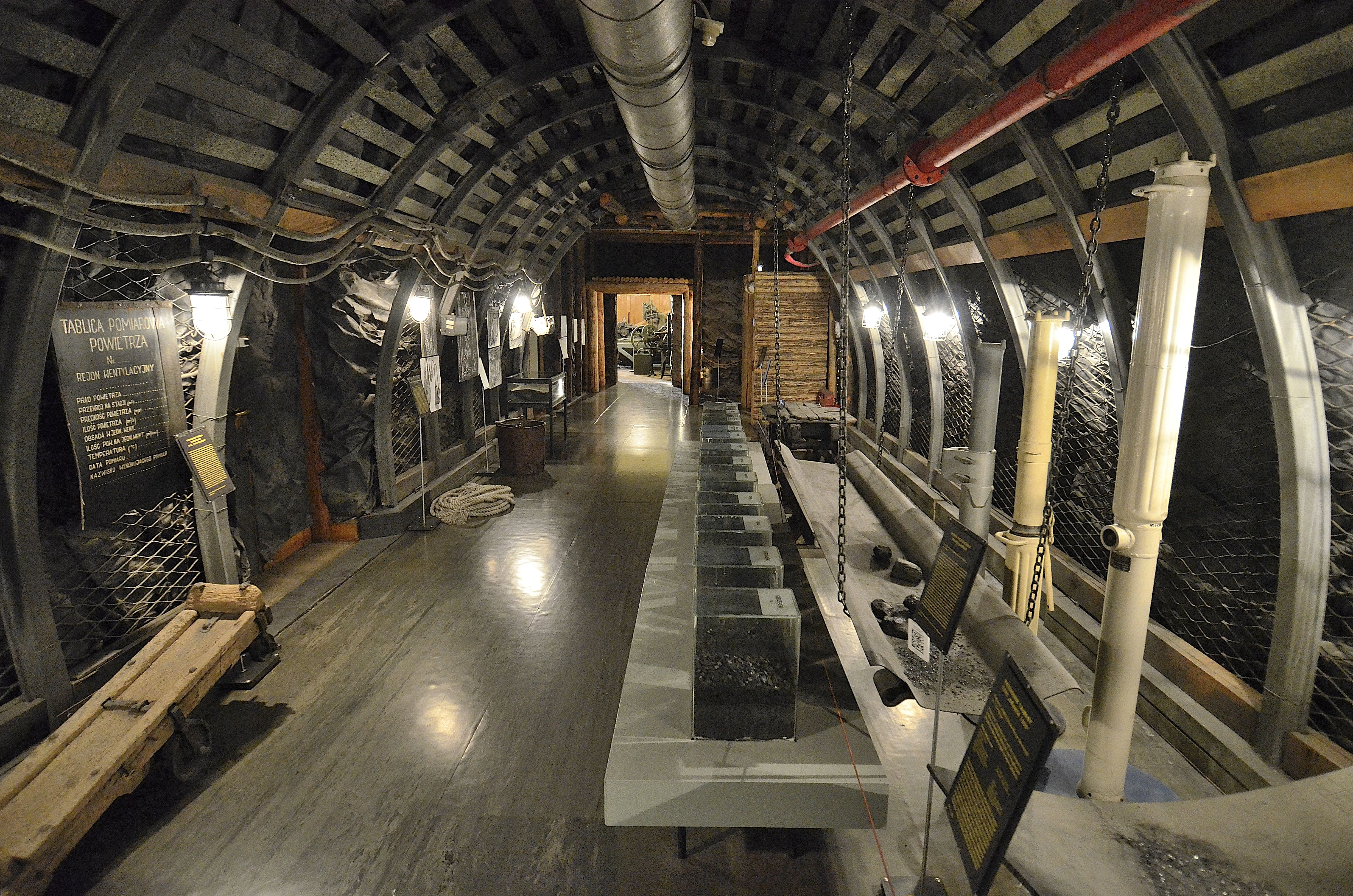 Museum of Technology in Warsaw